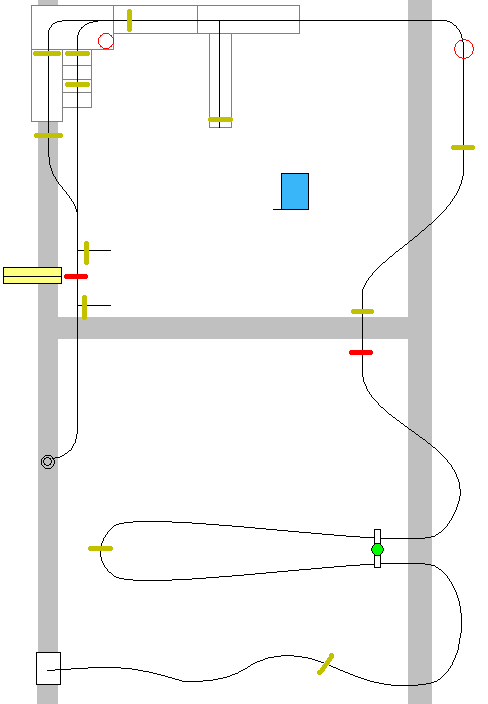 Redrawing of the DTU RoboCup 2007 track layout. DTU RoboCup is a yearly mobile robot competition taking place at Danish Technical University, Kgs. Lyngby, Denmark